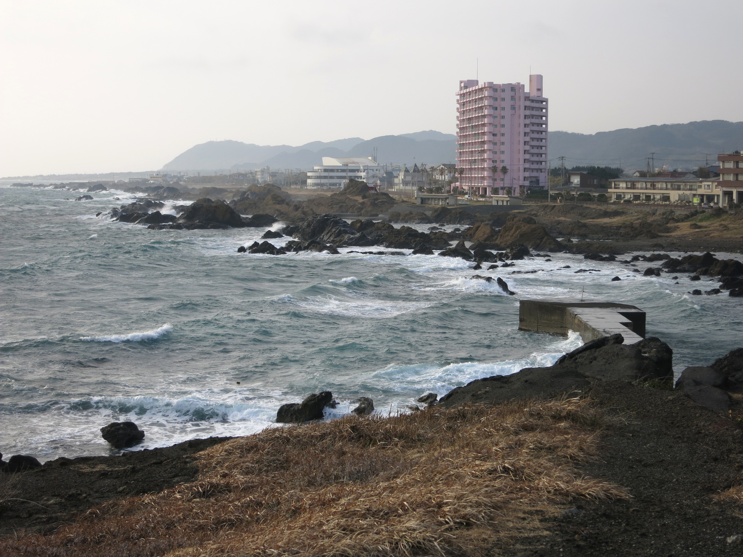 The shoreline looking west from Cape Nojima. Minamiboso, Chiba. Japan.